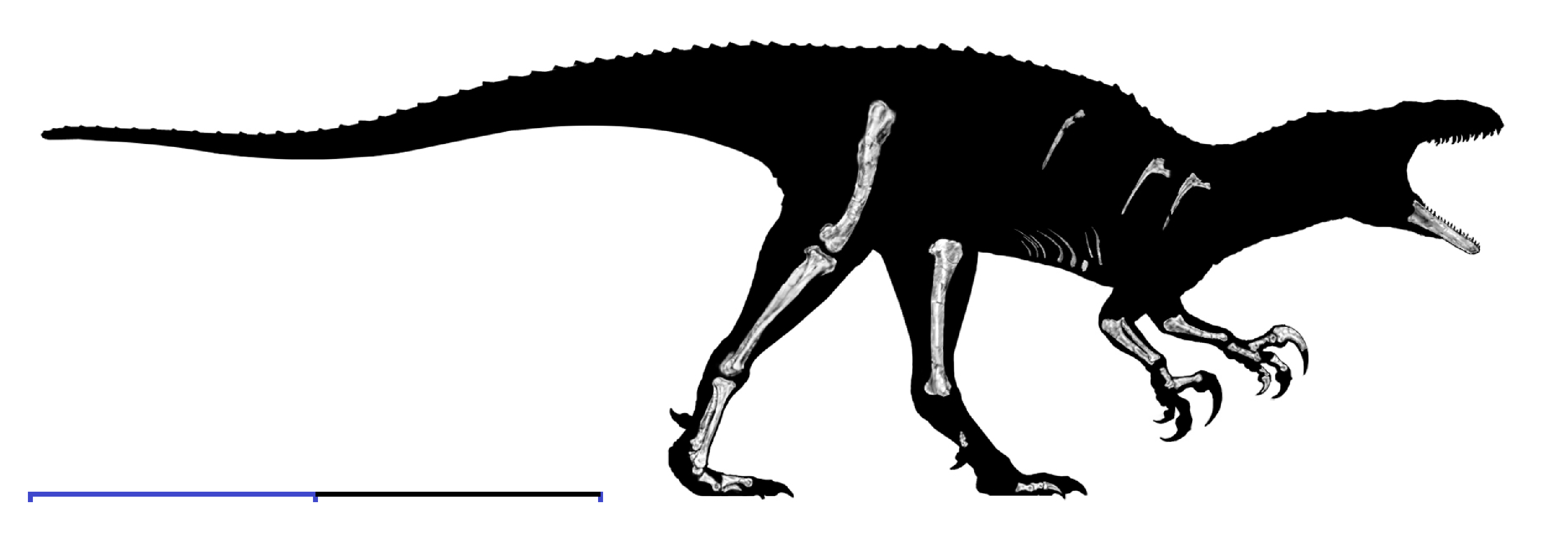 Australovenator wintonensis gen. et sp. nov. (QMF 7292) (Silhouette with sketched in bone parts of the material currently known at publishing date; scale bar: size unknown — not mentioned in original source)